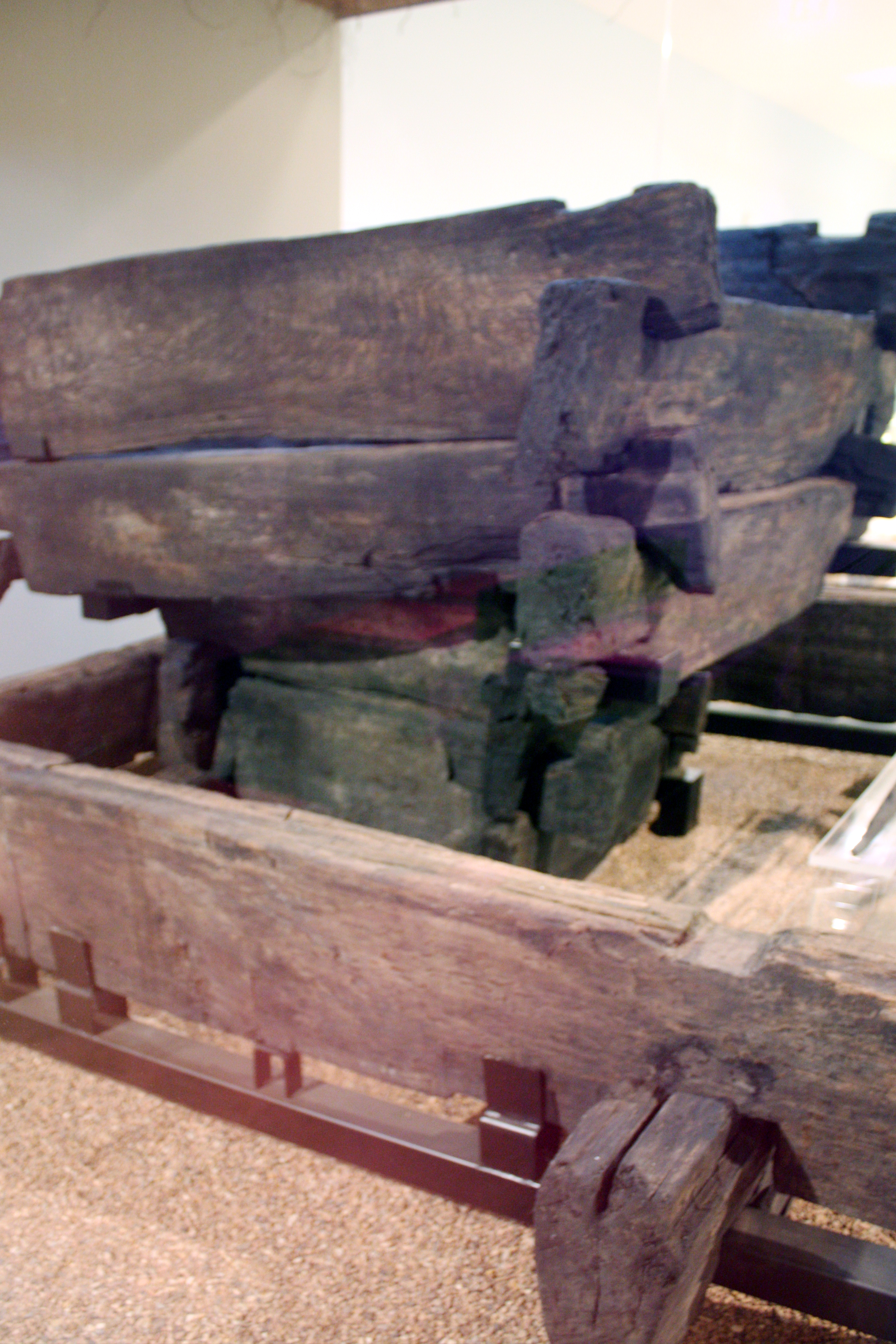 Neolithic artefacts (5300-5200 v. Ch.) of a timber fountain in Kückhoven (Erkelenz), North Rhine-Westphalia